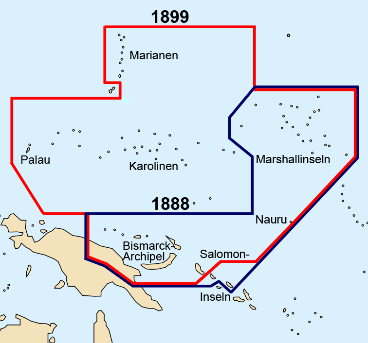 Borders of German New Guinea 1888 and 1899.